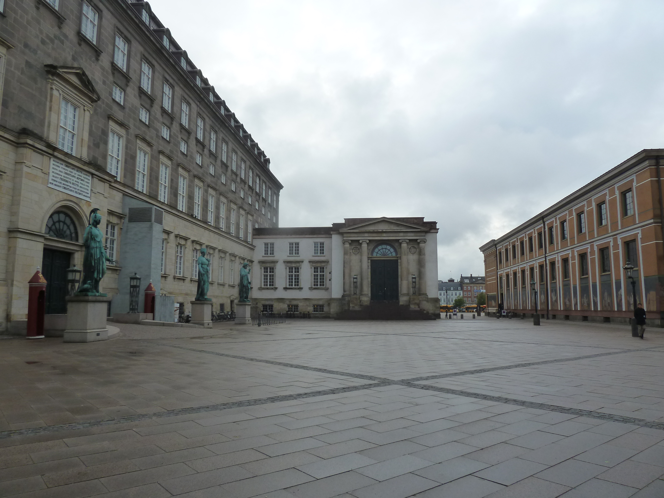 The square Prins Jørgens Gård between Christiansborg Castle, the Supreme Court of Denmark and Thorvaldsens Museum on Slotsholmen in Copenhagen.